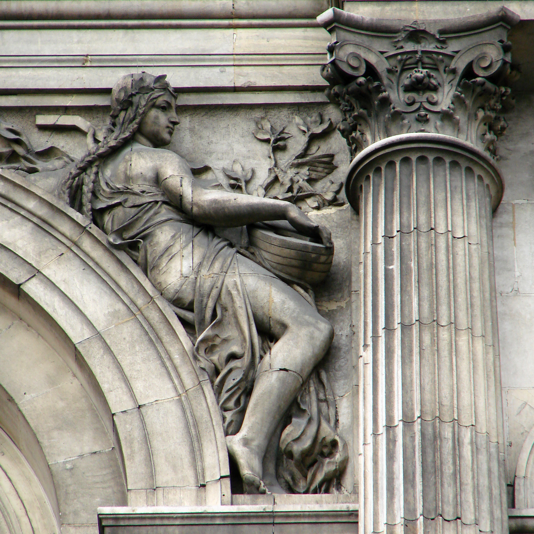 Relief above a window, back of the Hôtel de Ville of Paris.